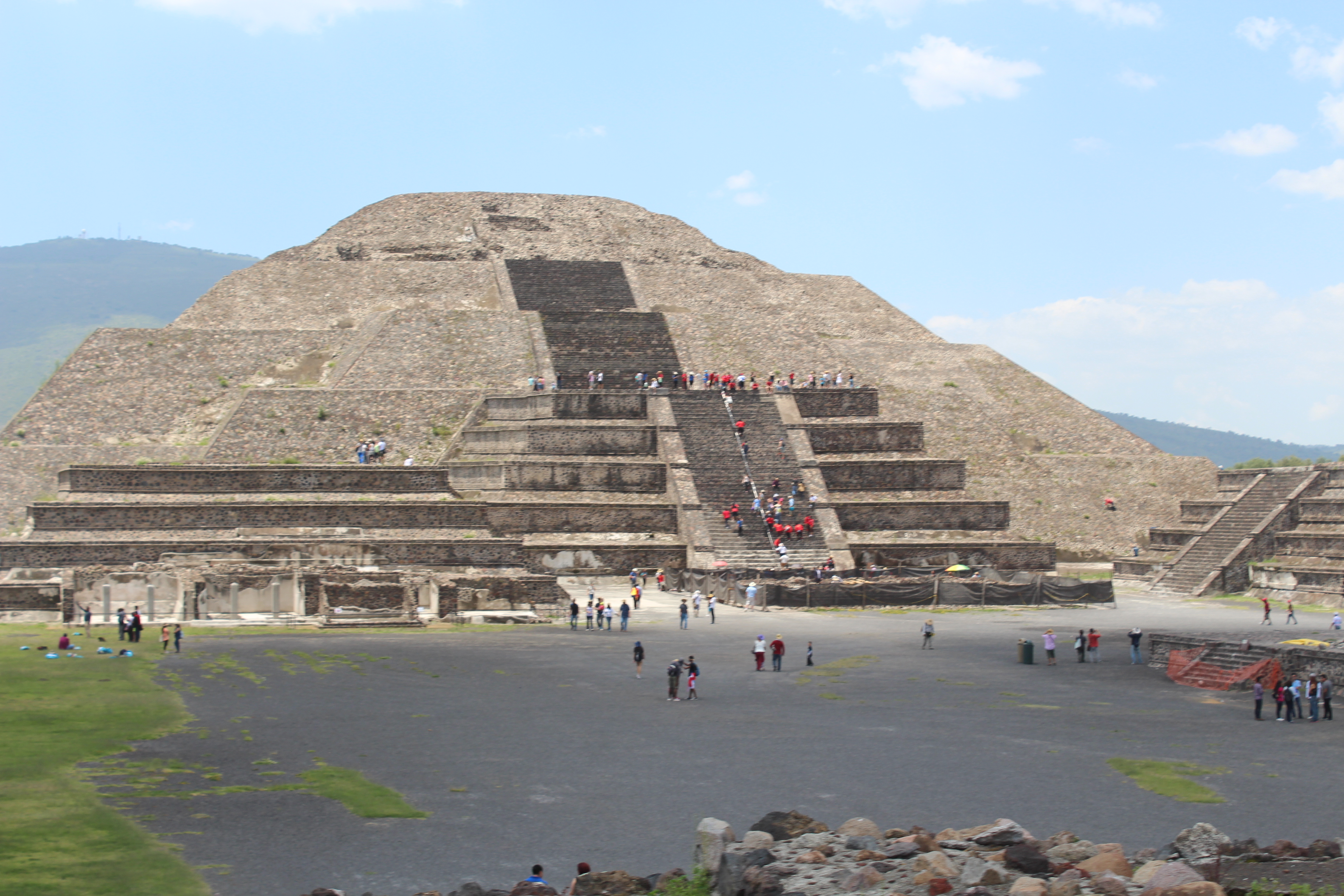 The Pyramid of the Moon in Teotihuacan - one of the largest in Mesoamerica, México